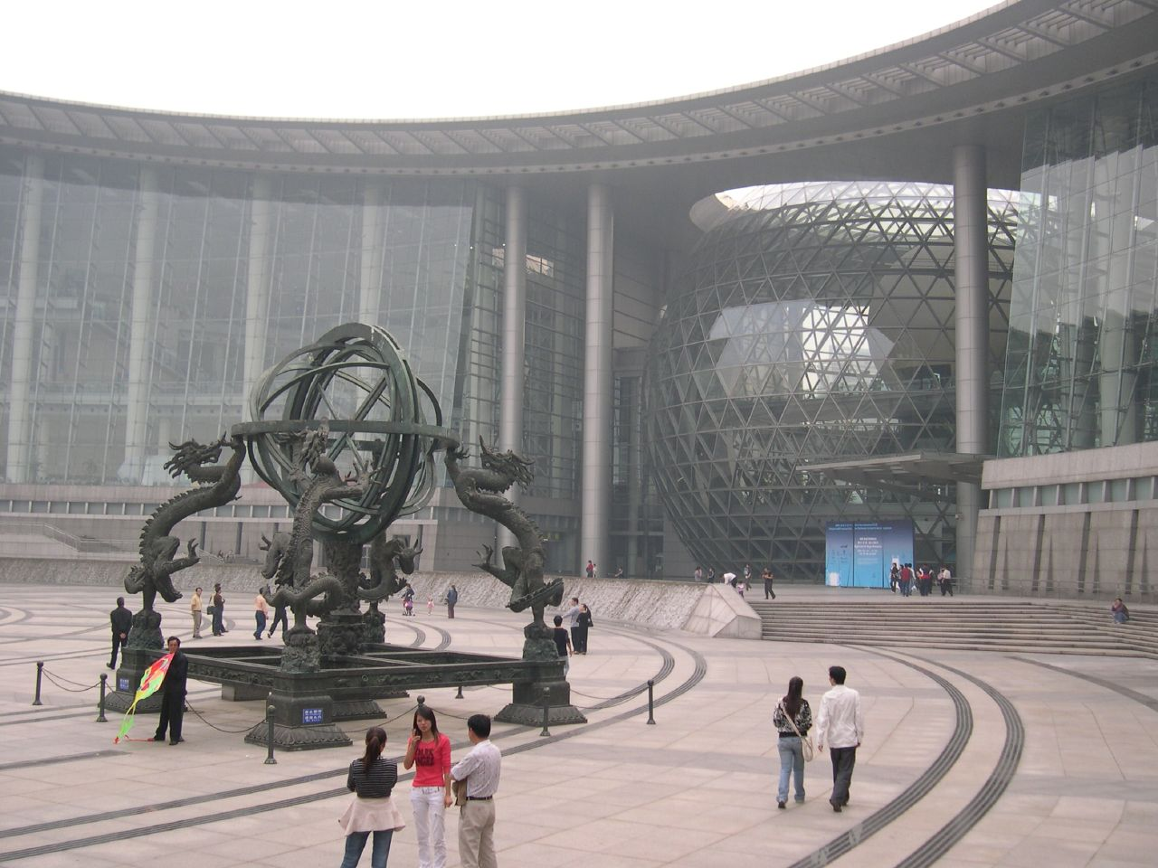 The public place in front of the Shanghai Science & Technology Museum. The old thing in the left seems to be a representation of the world. A turtle is holding the earth, supported by dragons.